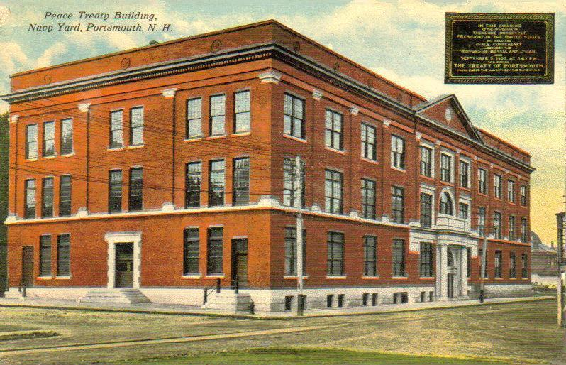 Peace Treaty Building, Portsmouth Navy Yard, Kittery, Maine; from a 1912 postcard. Built as the General Stores Building (now Building 86).